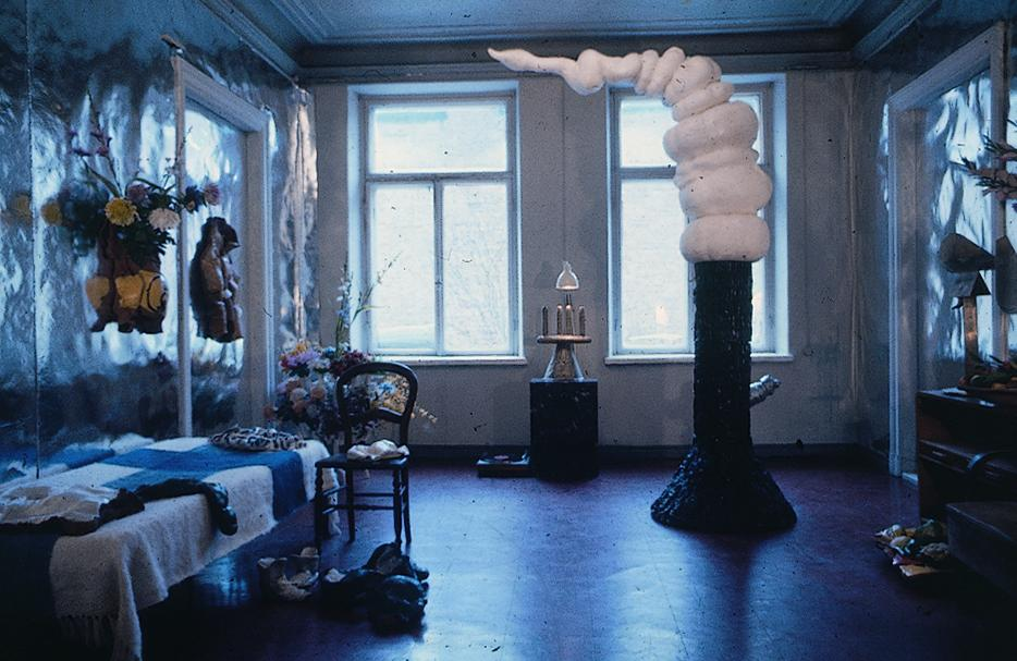 Zoltan Popovist - "Nostalgia" exhibition in 1966